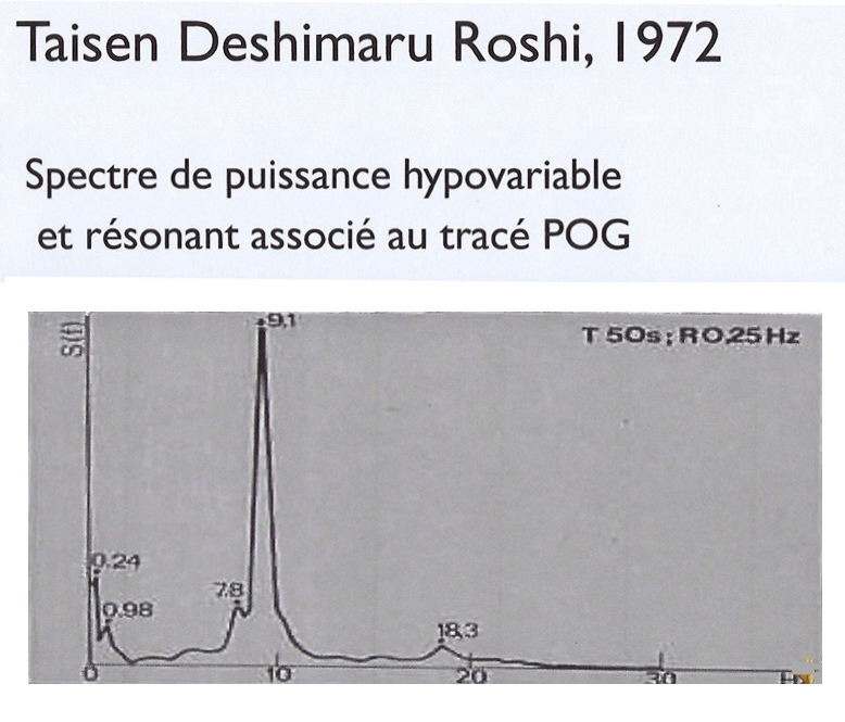 Taisen Deshimaru was recorded in EEG in Paris in Centre Hospitalier Sainte-Anne in 1971, sitted in zazen meditation during 30 minutes. This EEG presented over the parieto-occipital area an hypovariable and stable alpha rythm of great amplitude. The associated computerized spectral analysis of this EEG displays a resonant hypovariable peak of power spectrum for the alpha rythm which is chararcteristic of this meditation.